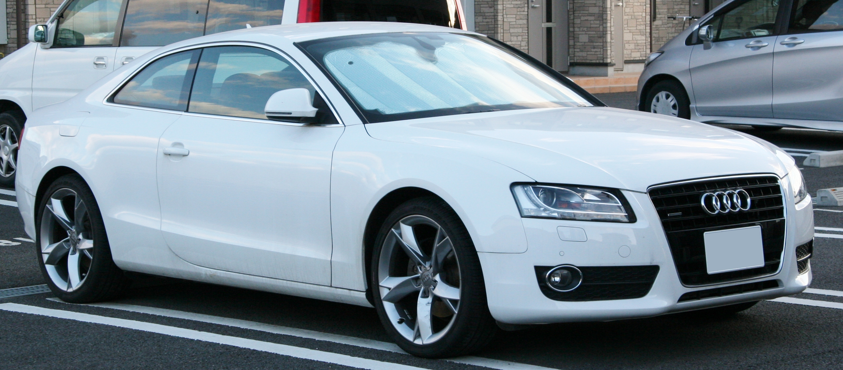 Audi A5